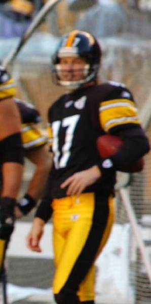 Santonio Holmes holds the ball in front of the Steelers sideline (among players on sidelines is #17 punter, Chris Gardocki)